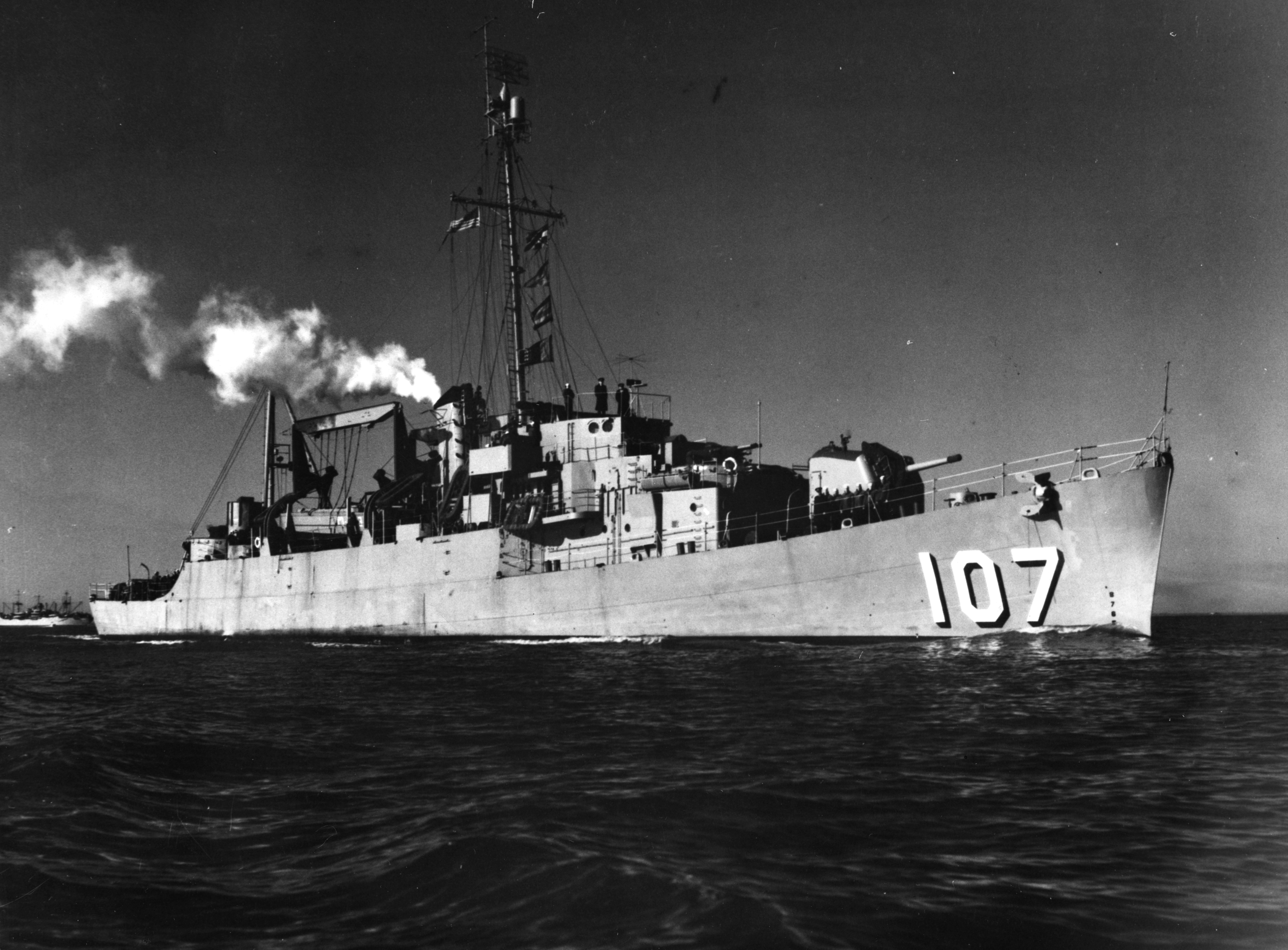 The U.S. Navy high-speed transport USS Earle B. Hall (APD-107) underway, circa in 1950.Note: The date given "1961" has to be incorrect, as the photo was already published in the All Hands magazine in August 1954.